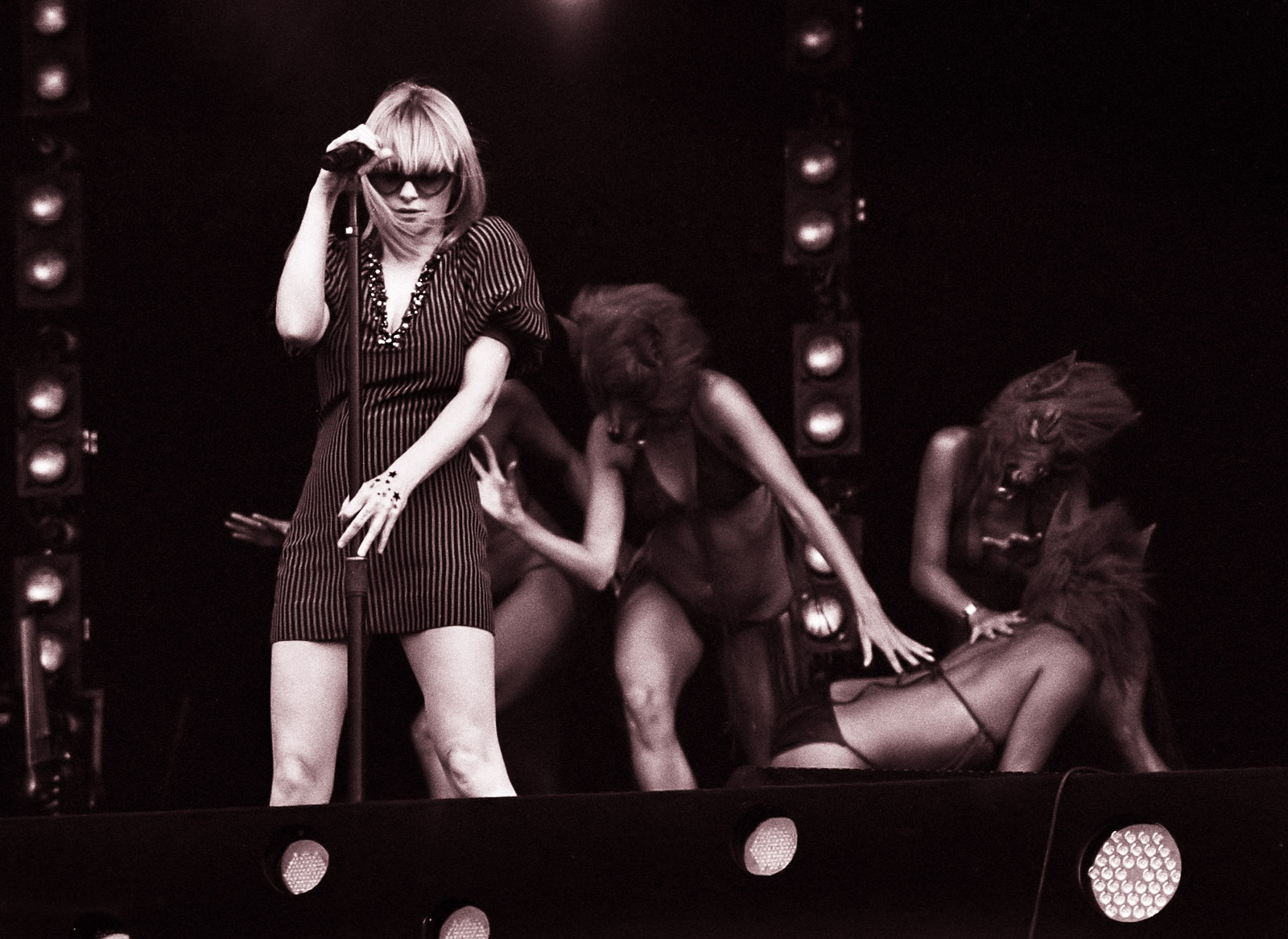 Goldfrapp and Dancers, Wireless Festival, Hyde Park, London. F601 and and AI'd 200m f4 on HP5+ LC29 1:19 This is large enough for a Desktop / Wallpaper....